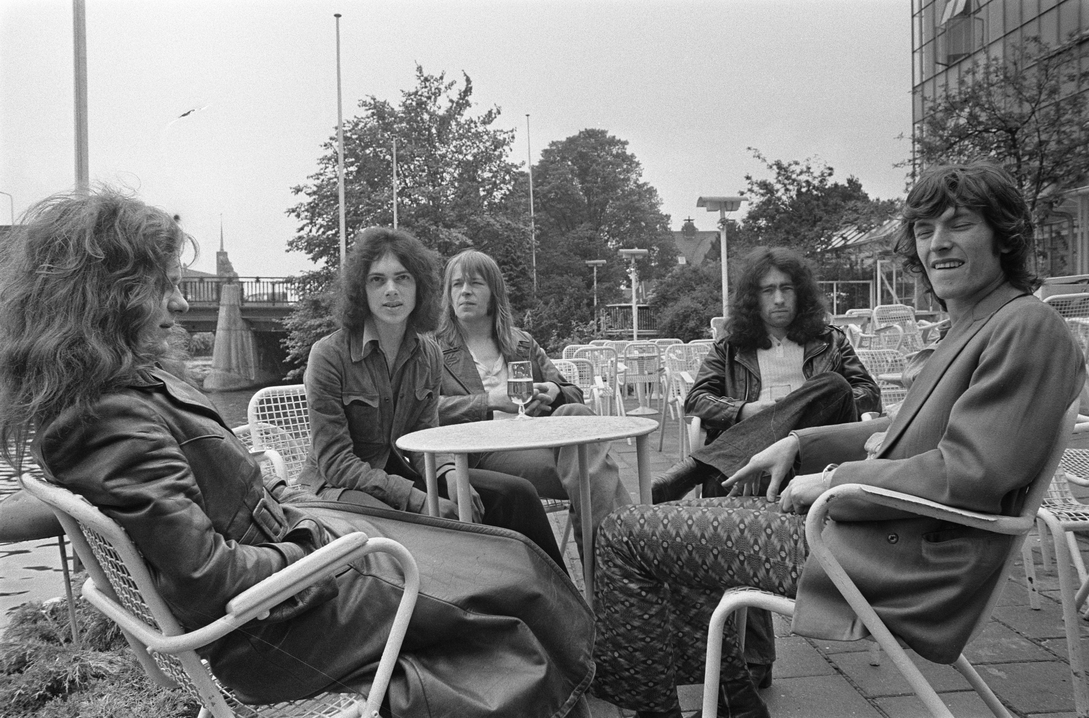 Free & Steve Winwood (Amsterdam, 16 July 1970). From left to right: Paul Kossoff, Andy Fraser, Simon Kirke, Paul Rodgers & Steve Winwood bij het Apollohotel/Apollohal